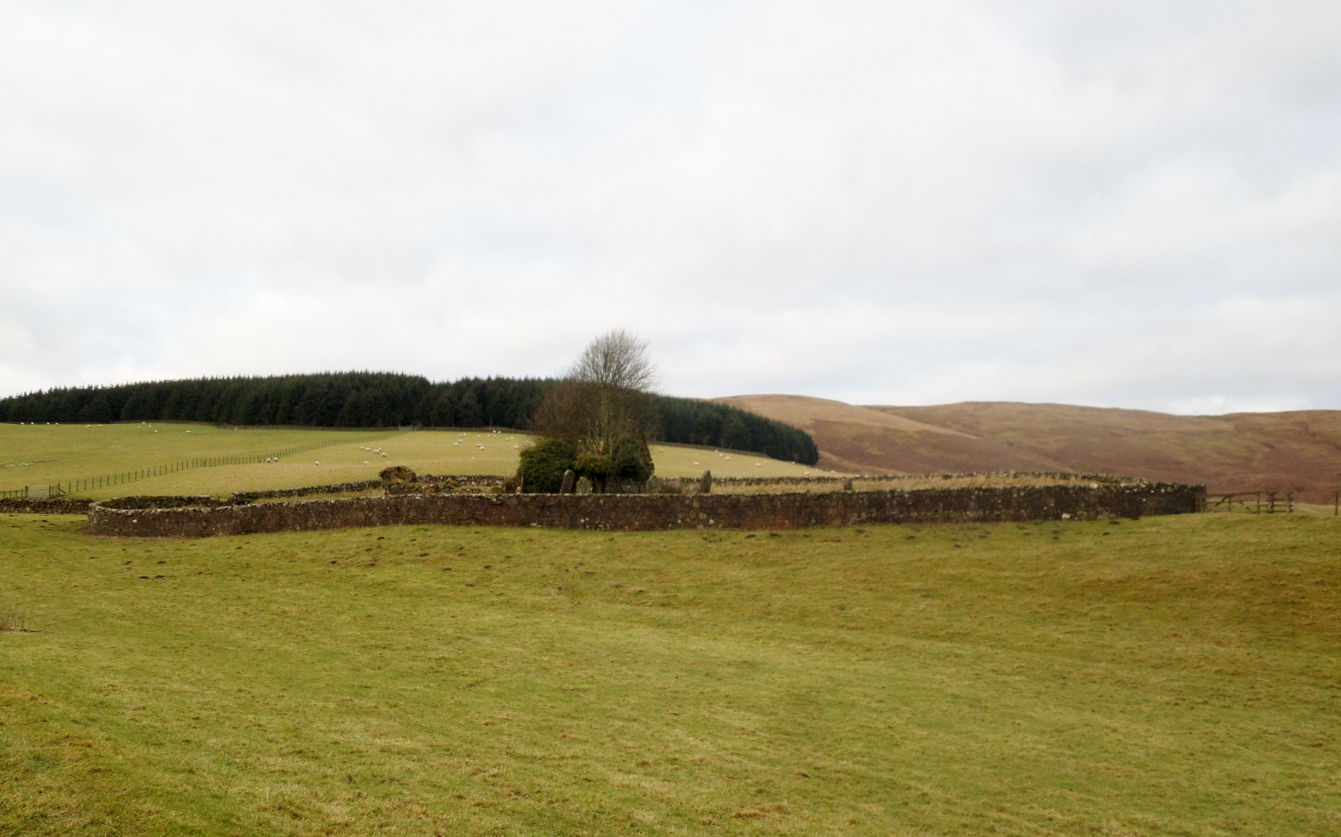 Kirkbride, Enterkinfoot, Nithsdale - old parish church ruins and cemetery